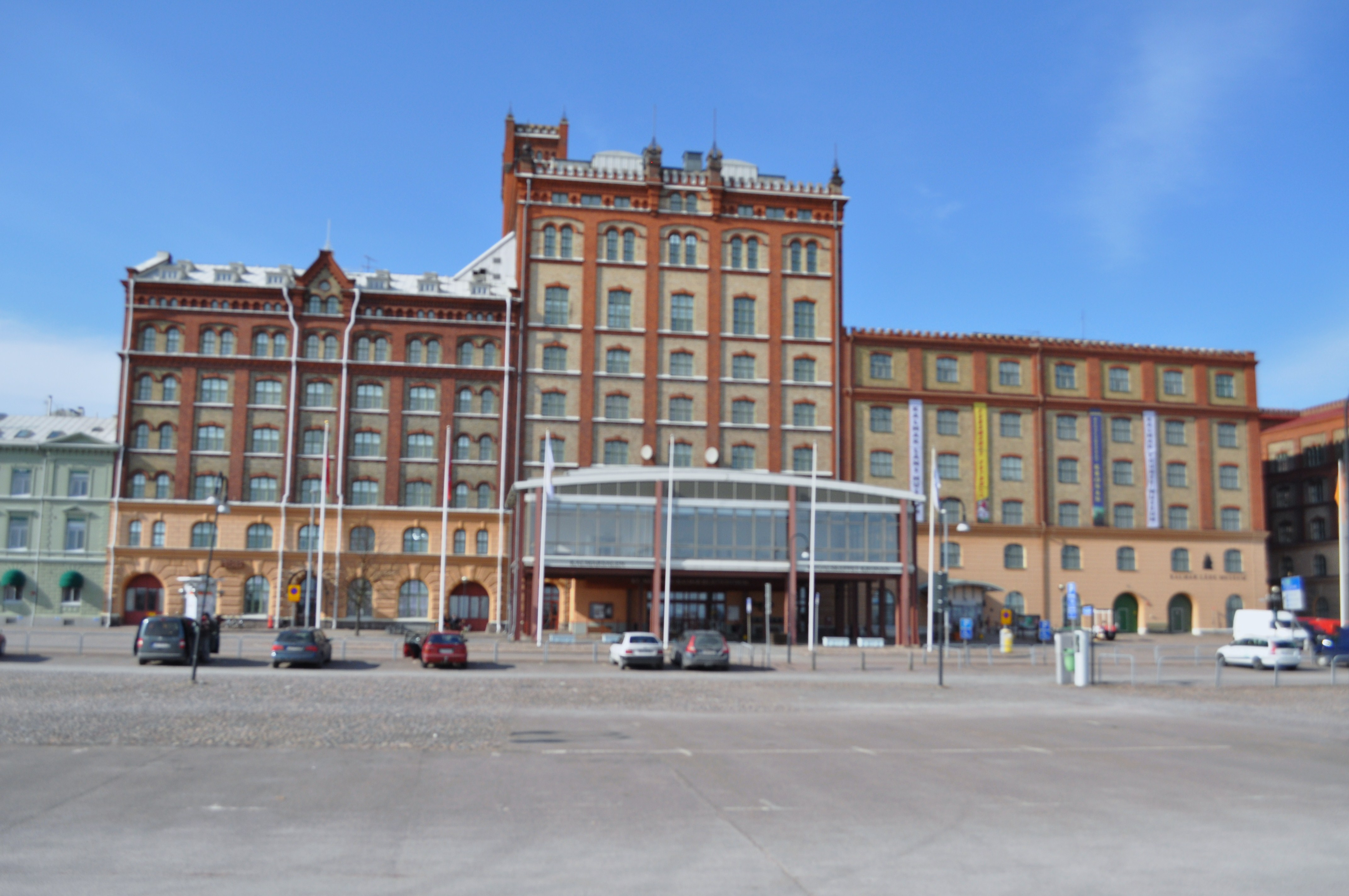 Kalmar läns Museum